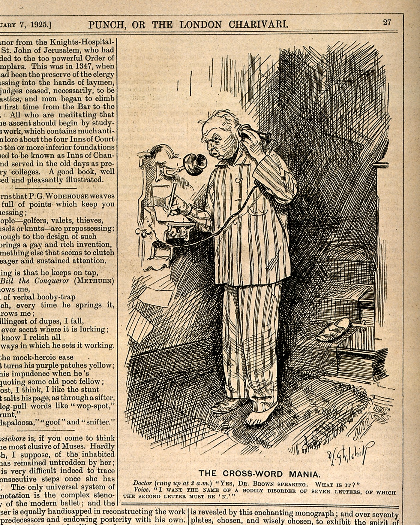 A crossword fanatic ringing up a doctor in the middle of the night to find the answer to a clue. Reproduction of a drawing after D.L. Ghilchilp, 1925. Iconographic Collections Keywords: D.L. Ghilchip